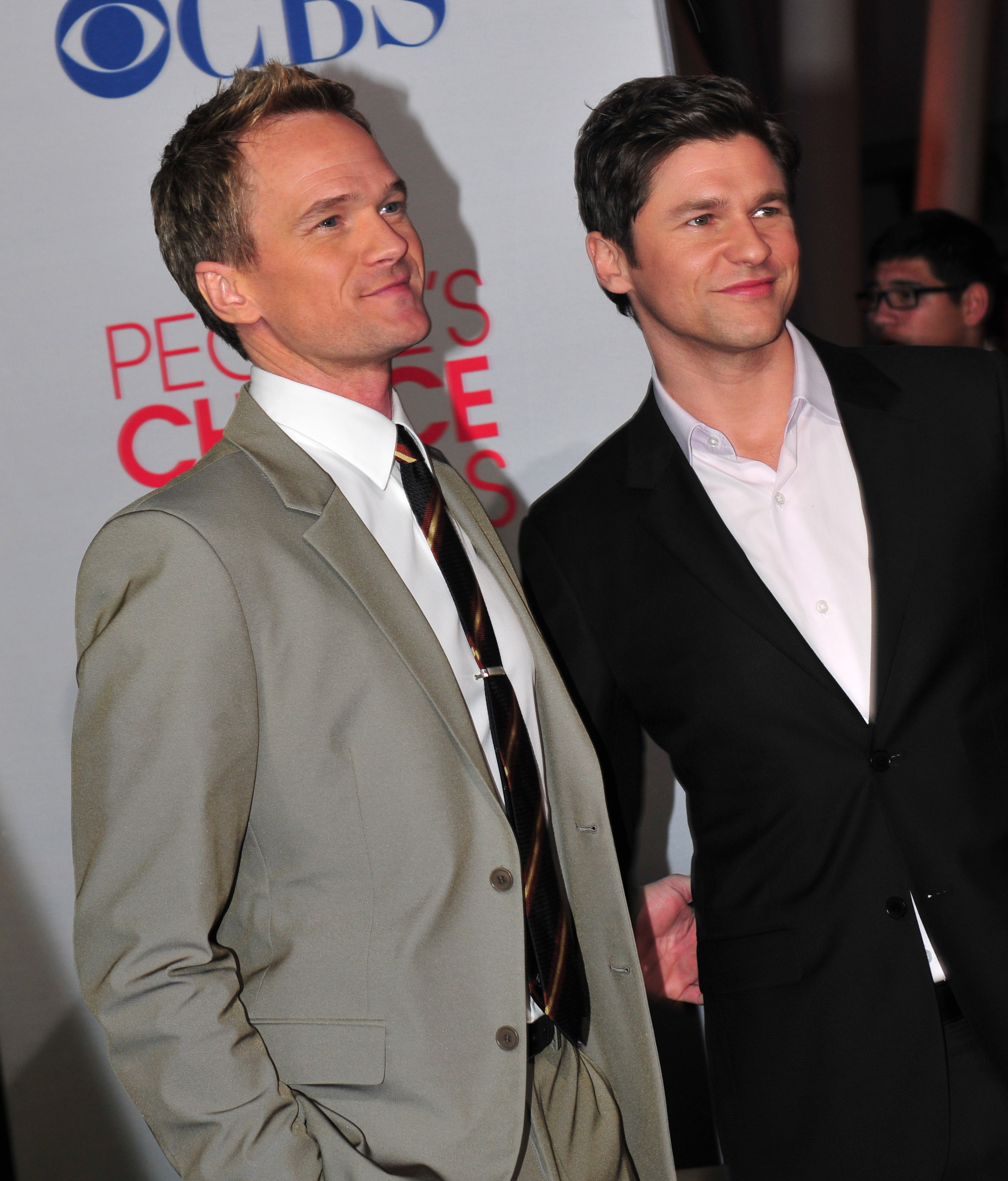 Neil Patrick Harris and David Burtka on the red carpet at the 38th People's Choice Awards on January 11, 2012, at the Nokia Theatre in Los Angeles, California.